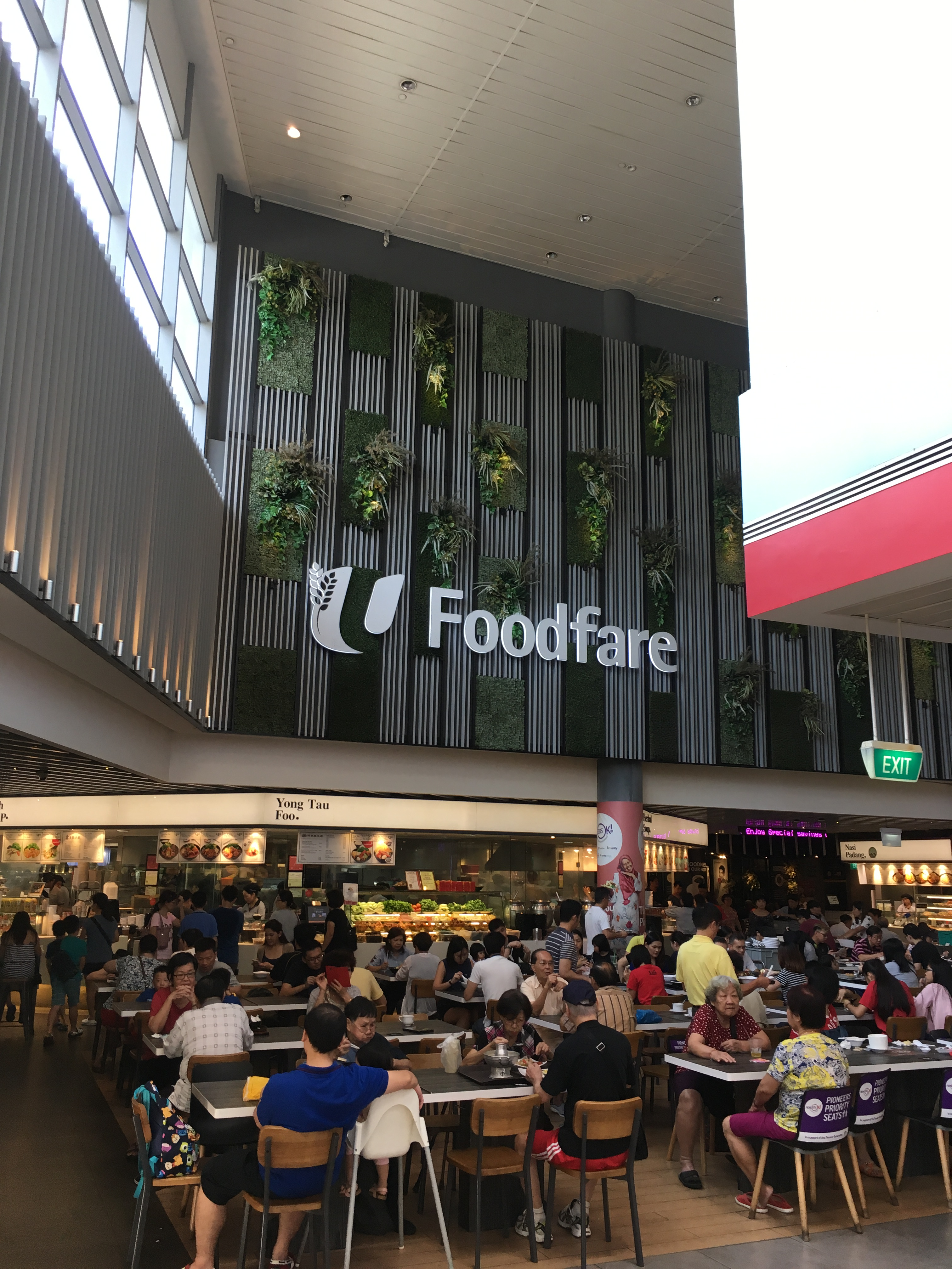 A food court managed by NTUC Foodfare located at AMK Hub, Singapore